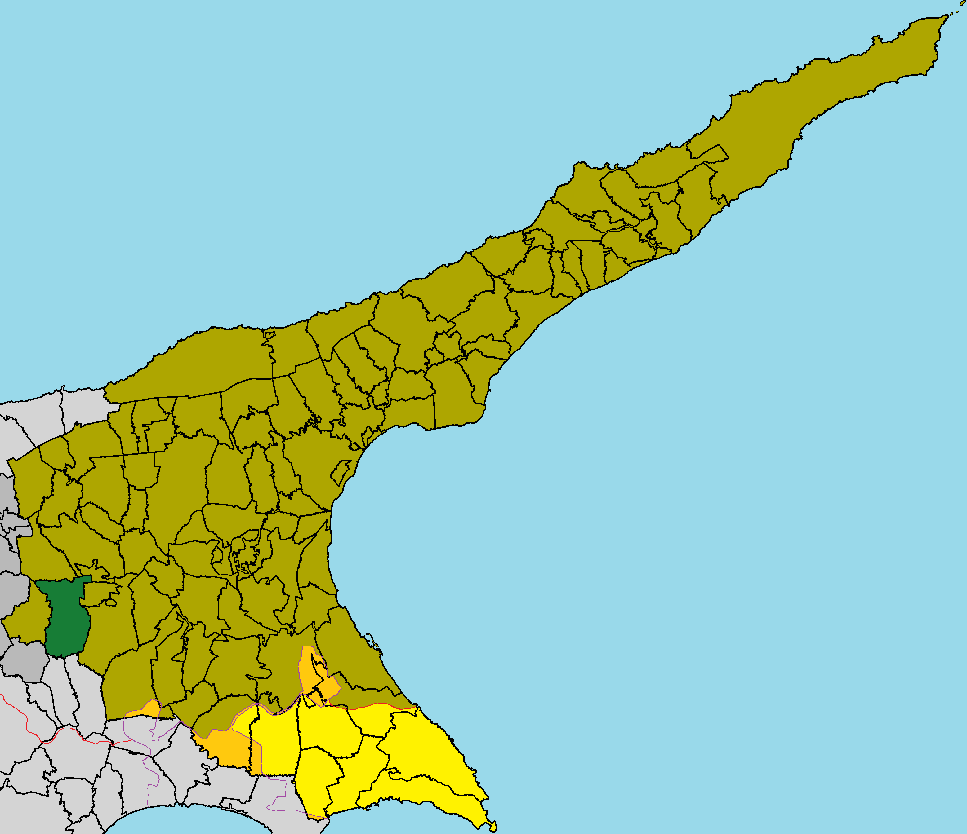 Αsseia in Famagusta District (de jure).